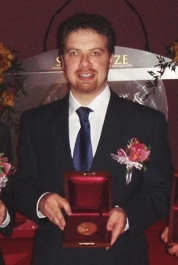 Adam Riess receiving the Shaw Prize for Astronomy 2006. Cropped from [1] on the English Wikipedia. The Original picture was released into the Public Domain, I likewise release any rights I have from editing it into the Public Domain.